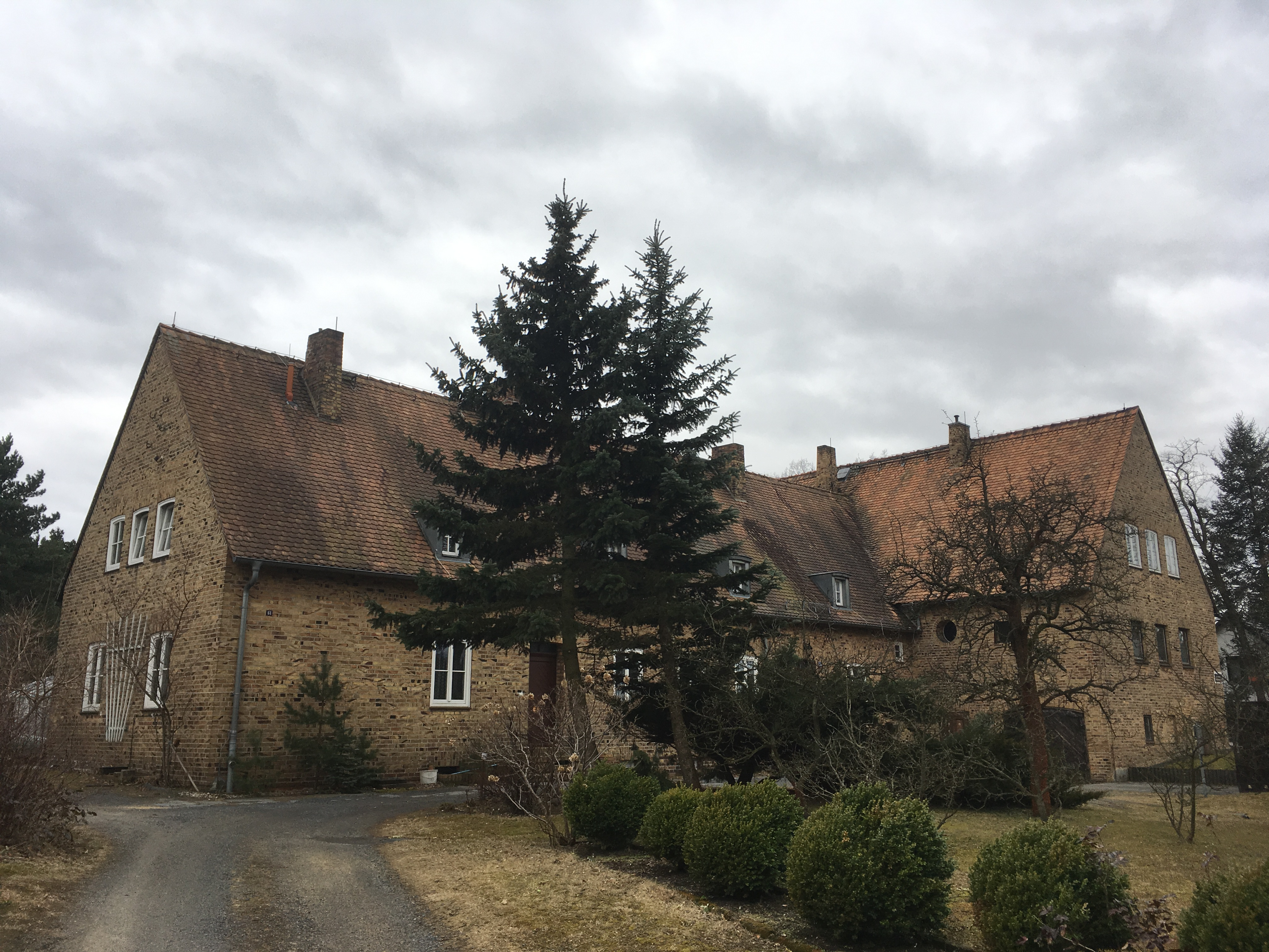 Old School in Trebus, Dorfstraße 61a, 61b; building with apartments built on the corner, made 1939 from yellow clinker in time-typical segmental arc style, of rarity value, significance for local and social history; cultural heritage monument